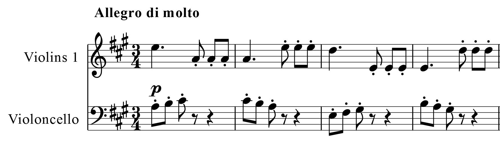 Joseph Haydn, Symphony No. 28, first movement, bar 1-4